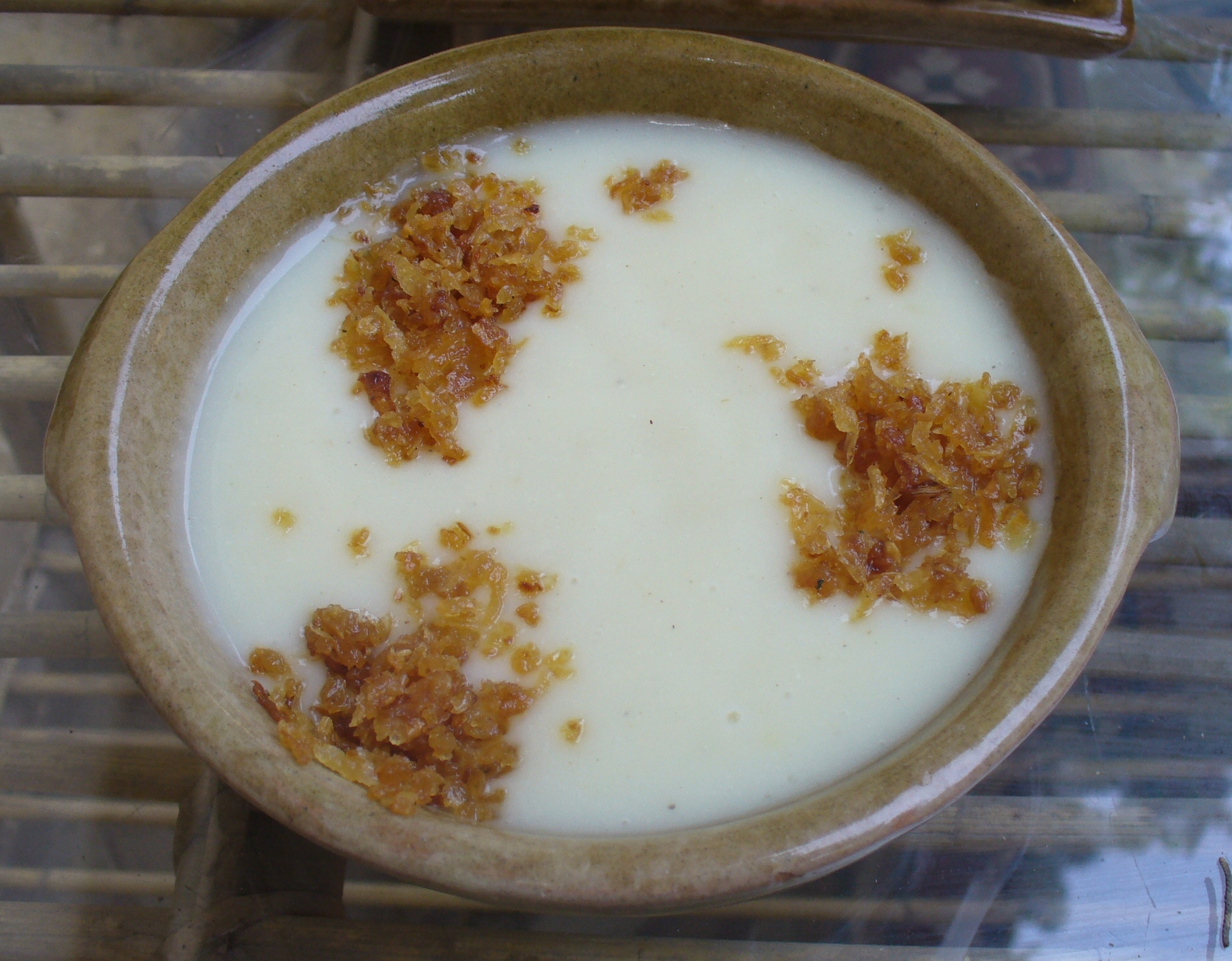 kishk, an Egyptian dish made with thickened milk or yogurt and topped with fried onions Cairo, Egypt